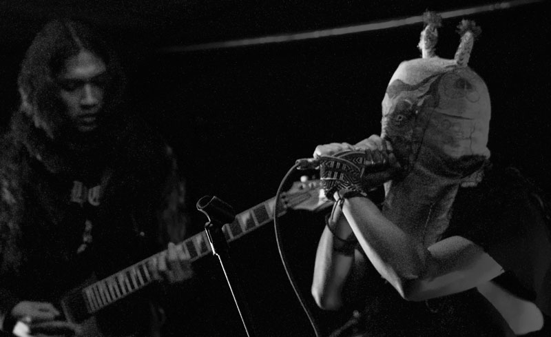 Photo taken during a camping concert in the Saraguro paramos in 2017